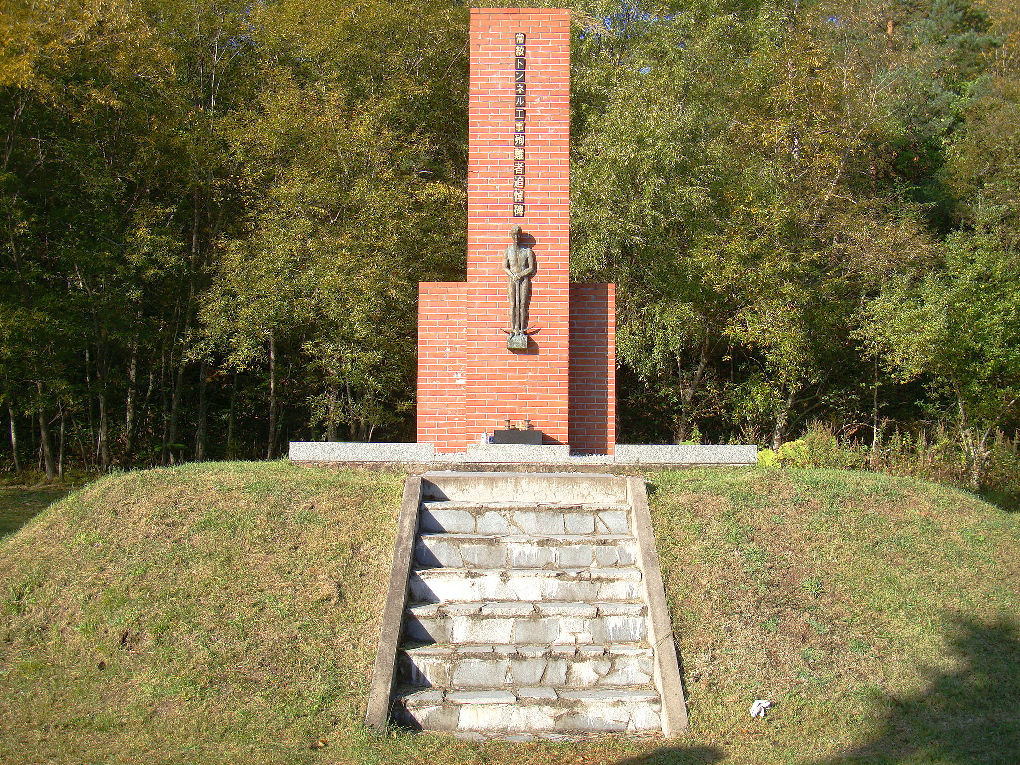 Jōmon Tunnel construction victim to duty memorial service monument